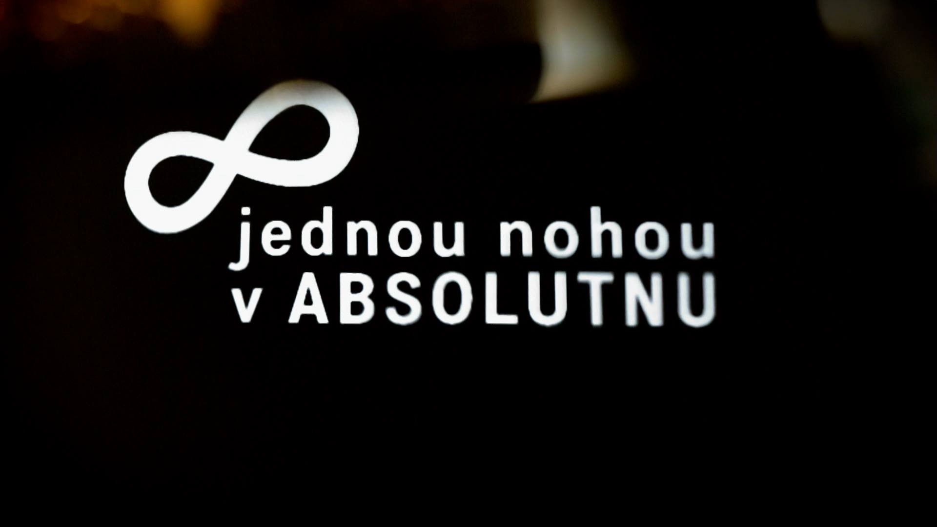 Logo of televison document called Jednou nohou v absolutnu.